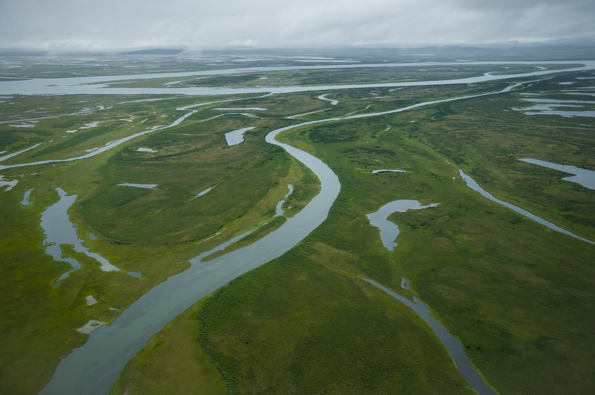 (NPS Photo by Neal Herbert)